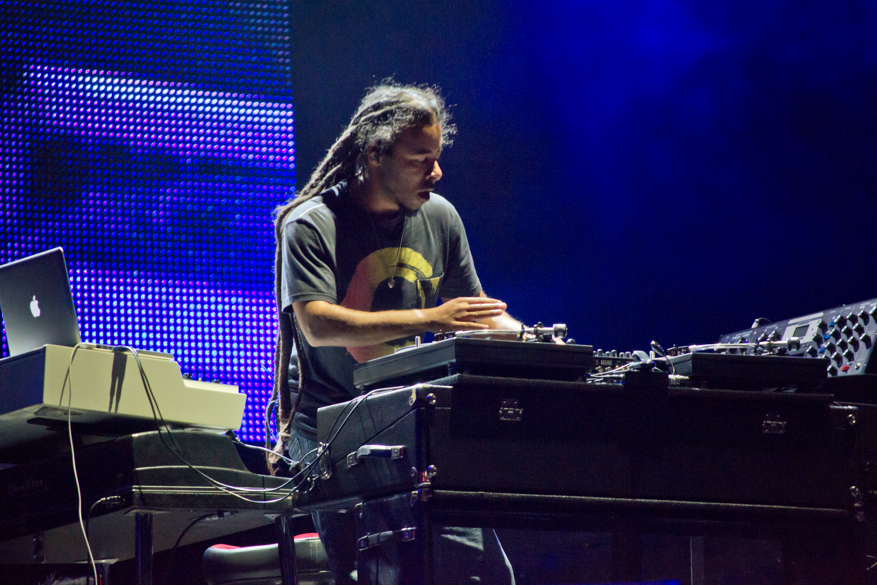 Incubus in Rock in Rio Madrid 2012.